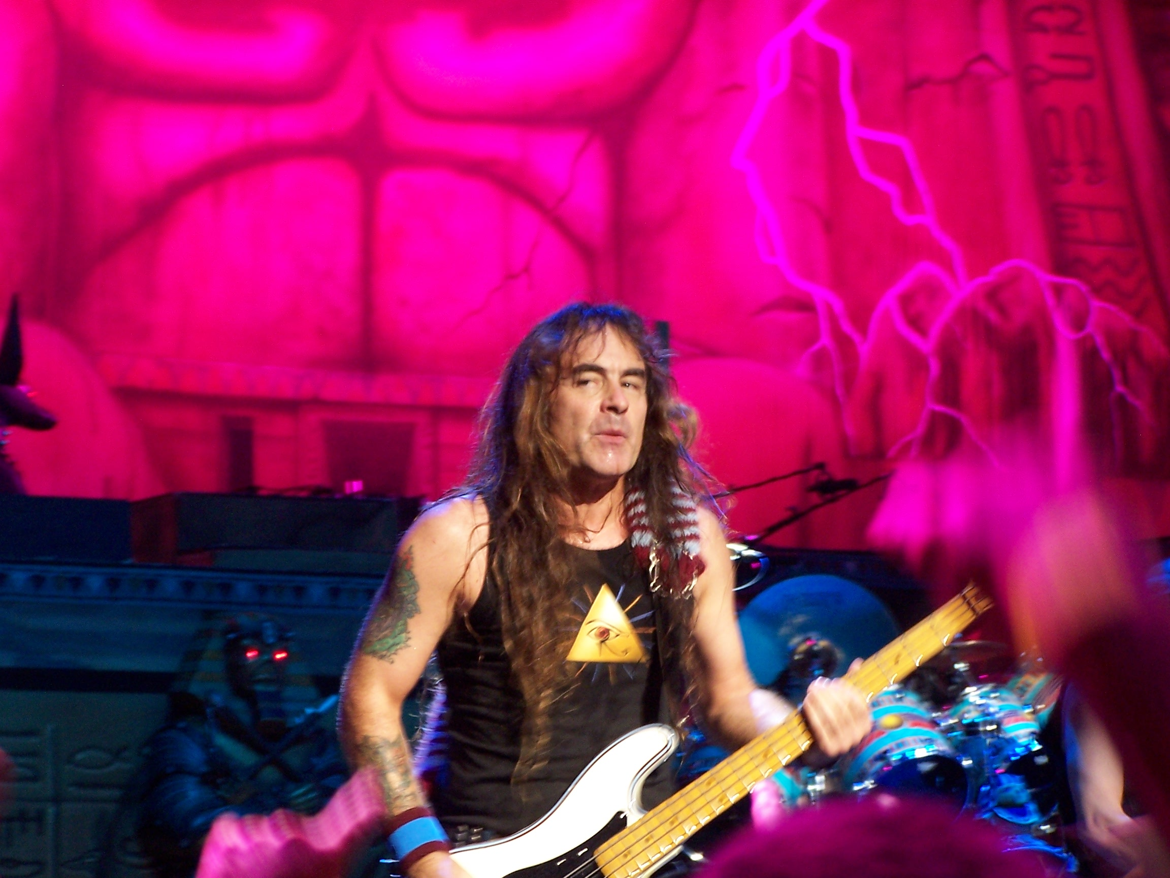 Steve Harris performs with Iron Maiden in Mansfield, MA.